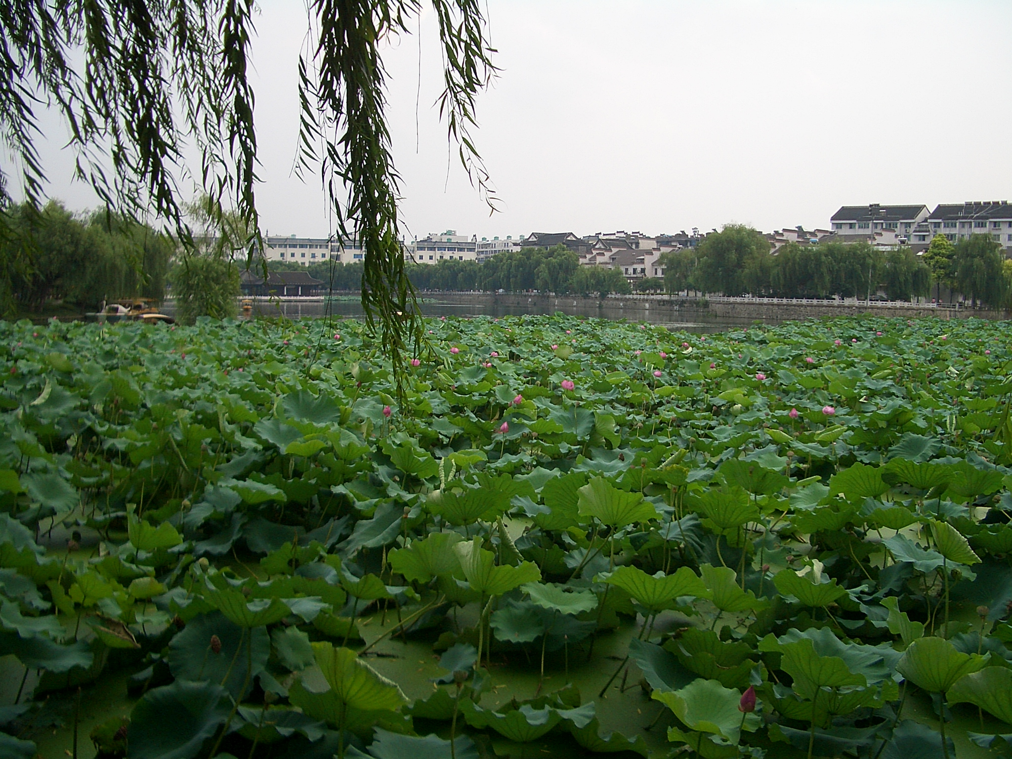 Hehuachi ("Lotus Flower Pond") is locaed at the southwestern corner of Yangzhou's historical center. The area around it is called Hehuachi Park. Erdao He, a canal forming the western boundary of Yangzhou's historical center. The lake itself is in the city's Guangling District, but the western edge of the park may be in Hanjiang District.